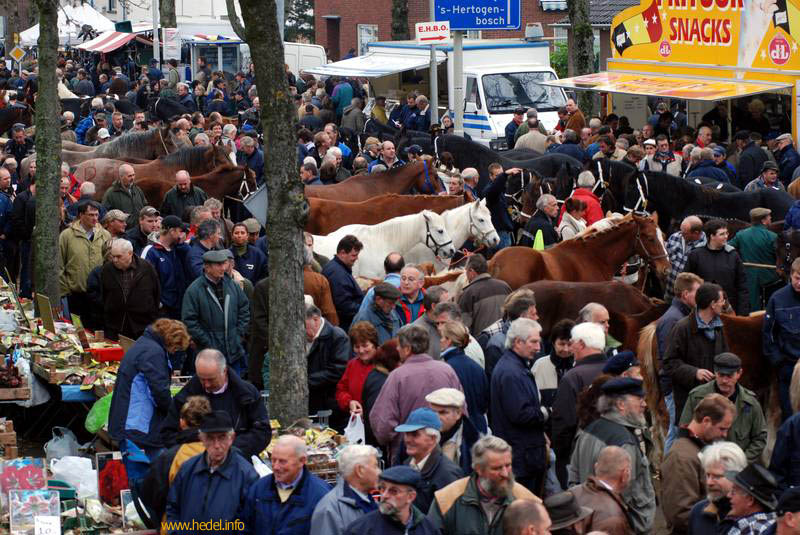 Horse market Hedel